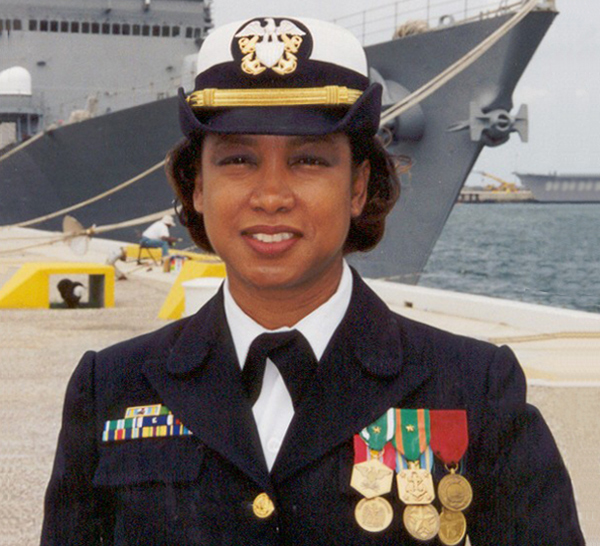 LCDR Jennifer Carroll, USN